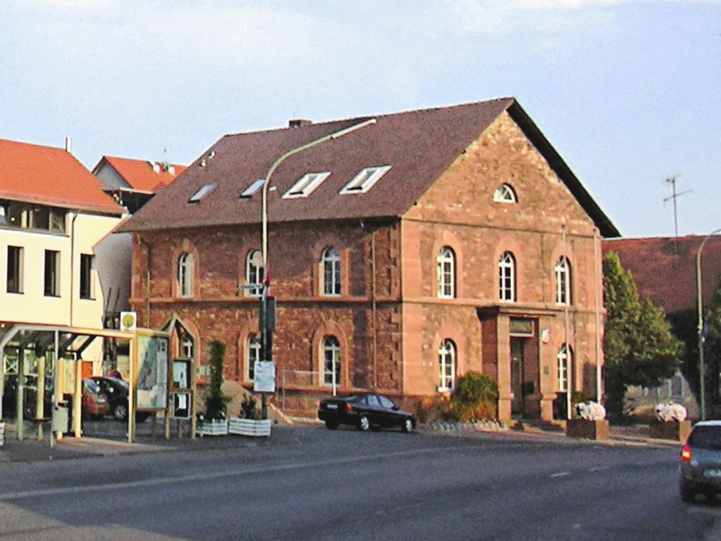 Town hall and water tower at Kahl, near Aschaffenburg, Bavaria/Germany